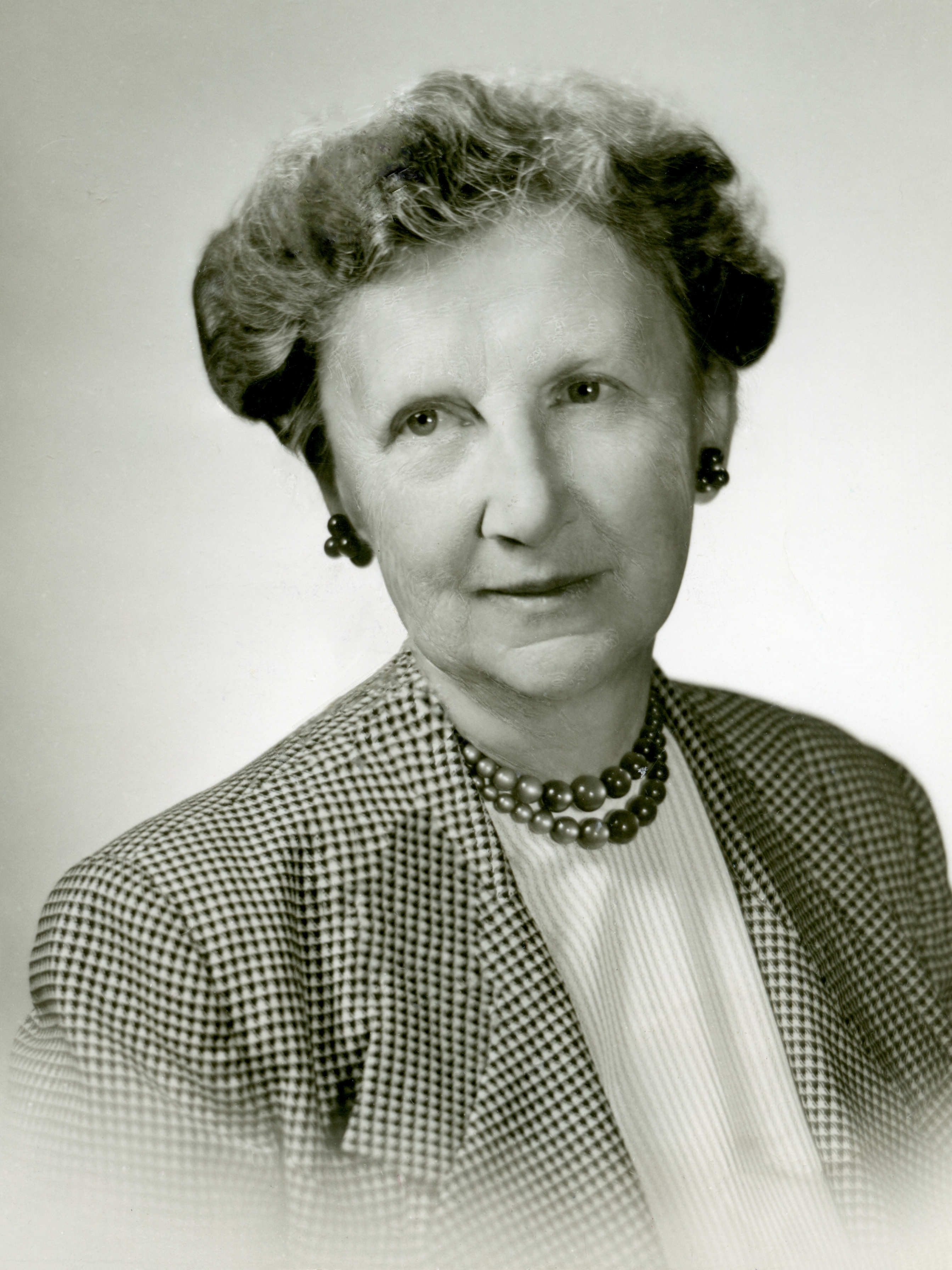 Emily Hale (1892-1969) was a drama teacher. Her long-term relationship with TS Eliot generated one of the best-known sealed literary archives of the twentieth century until his letters were unsealed in 2020.